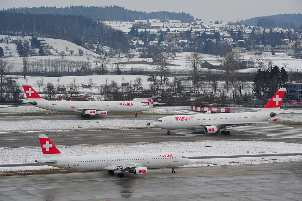 Swiss Airbuses line-up for take-off at a wintry Zurich Airport on January 26, 2011.